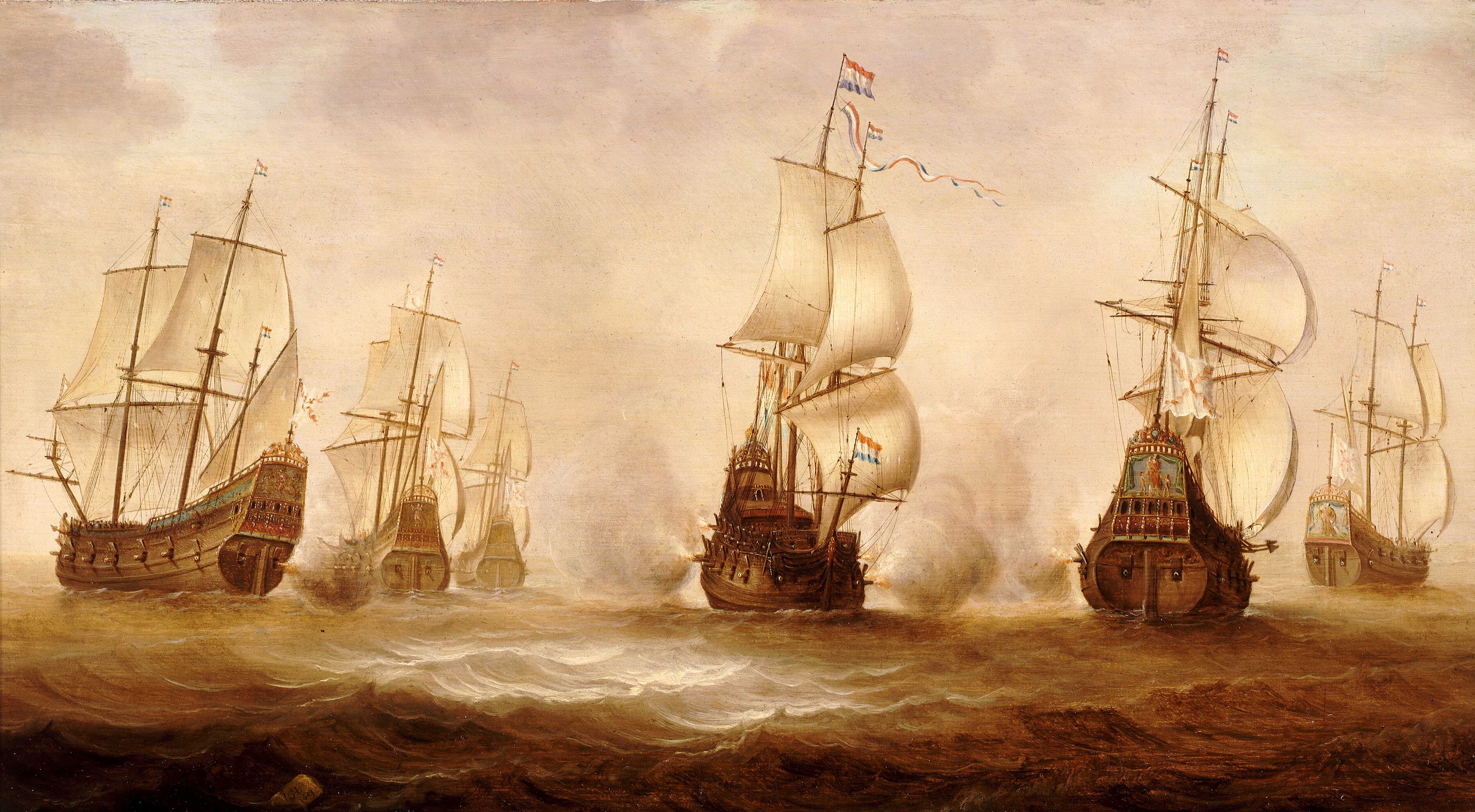 Witte de With's Action with Dunkirkers off Nieuwpoort, 1640 During the Thirty Years War, Spanish naval power reached unprecedented levels. Their ports and shipyards in Flanders, particularly Dunkirk, were the focus of maritime revival. The Flanders fleet which evolved in response to Dutch sea power became the most devastating and effective unit in Spain's defence establishment. In combination with its privateering auxiliaries, this élite striking force dominated the North Sea between 1625 and 1645, and also campaigned in the Mediterranean and Atlantic. This interpretation probably depicts the 1640 engagement between the Dutch commander de With and the Navarrese Admiral Miguel de Horna. He was the overall sea-commander of the Spanish Flanders fleet, and in July 1640 he was intercepted by de With when returning from a privateering voyage. The battle that ensued was long and bloody, but the Dutch commander was able to capture two Spanish vessels. Five galleons are depicted surrounding one Dutch ship in the centre, in starboard-bow view. It is flying the Dutch flag and pendants, while the Spanish ships fly the Burgundian ragged-cross flag of the Spanish Netherlands and have painted decorations on their sterns. Guns are firing from the Spanish ship on the left and the second from the right, towards the Dutch ship in the middle. This ship is depicted returning their fire. The painting is one of a pair with BHC0271, and they were probably commissioned by either a merchant or a specific ship owner whose property had been saved or rescued by de With, since any success against the Dunkirkers was deemed worthy of celebration. Both paintings probably depict the same encounter from 1640, since they are similar in overall design and in details of light, weather conditions and vessels shown. This painting bears an inscription, 'IGL 1643' on a bale floating in the foreground. Witte de With's Action with Dunkirkers off Nieuport, 1641